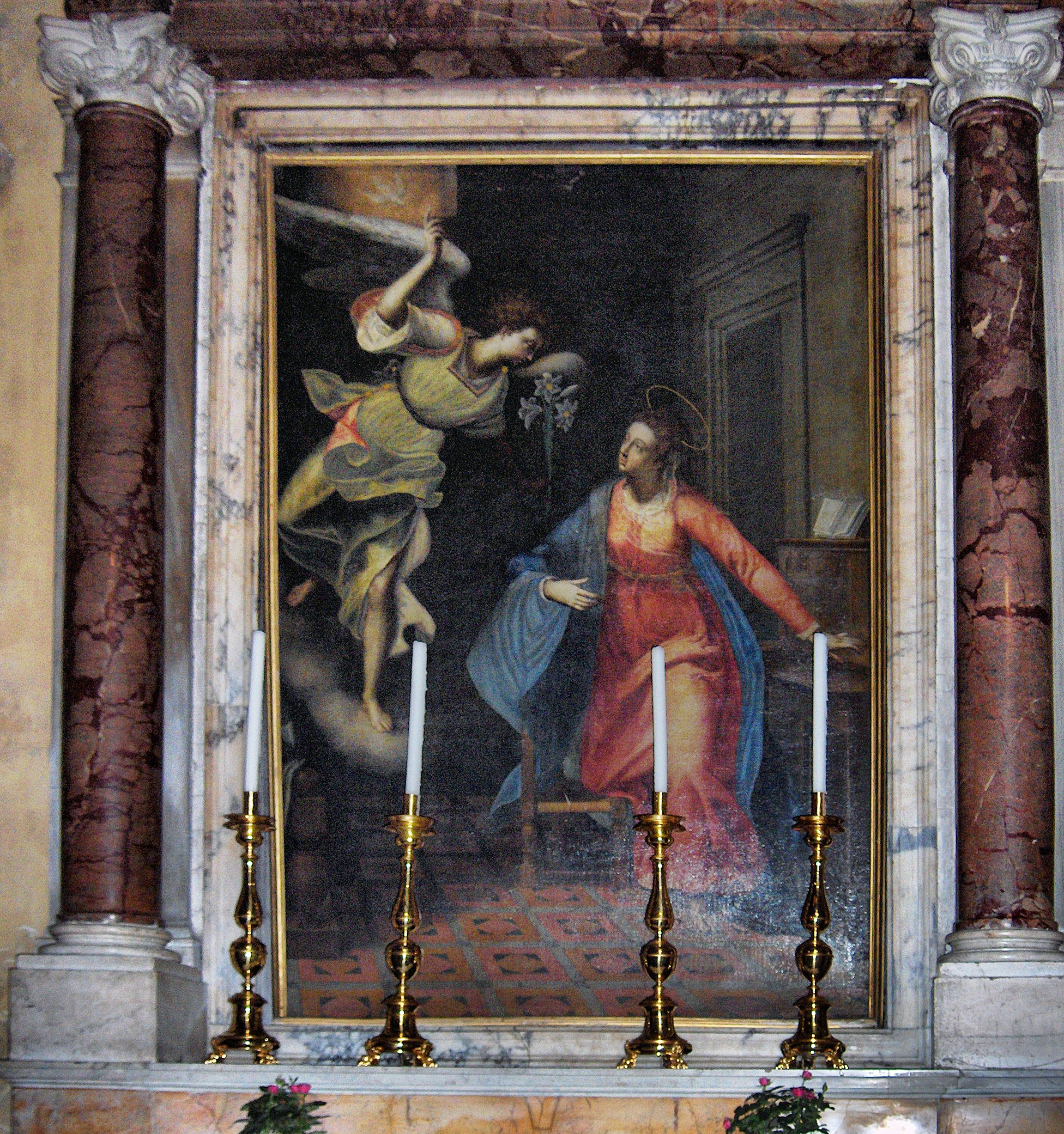 The Annunciation